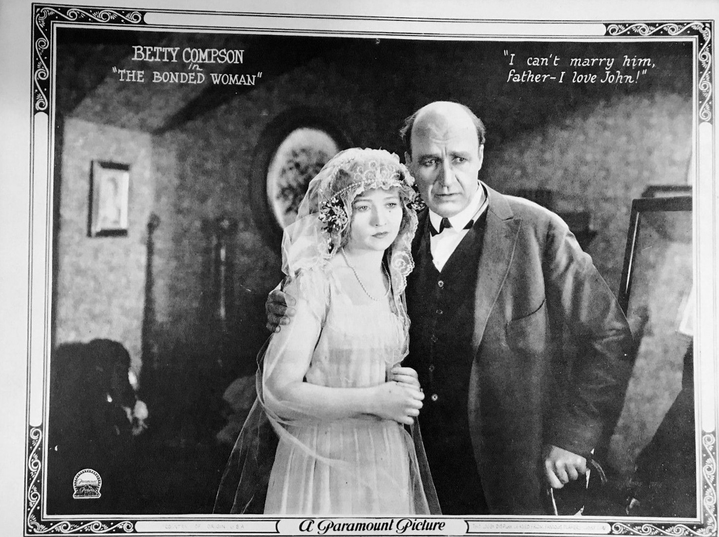 Lobby card for the American drama film The Bonded Woman (1922). Pictured are Betty Compson and J. Farrell MacDonald.